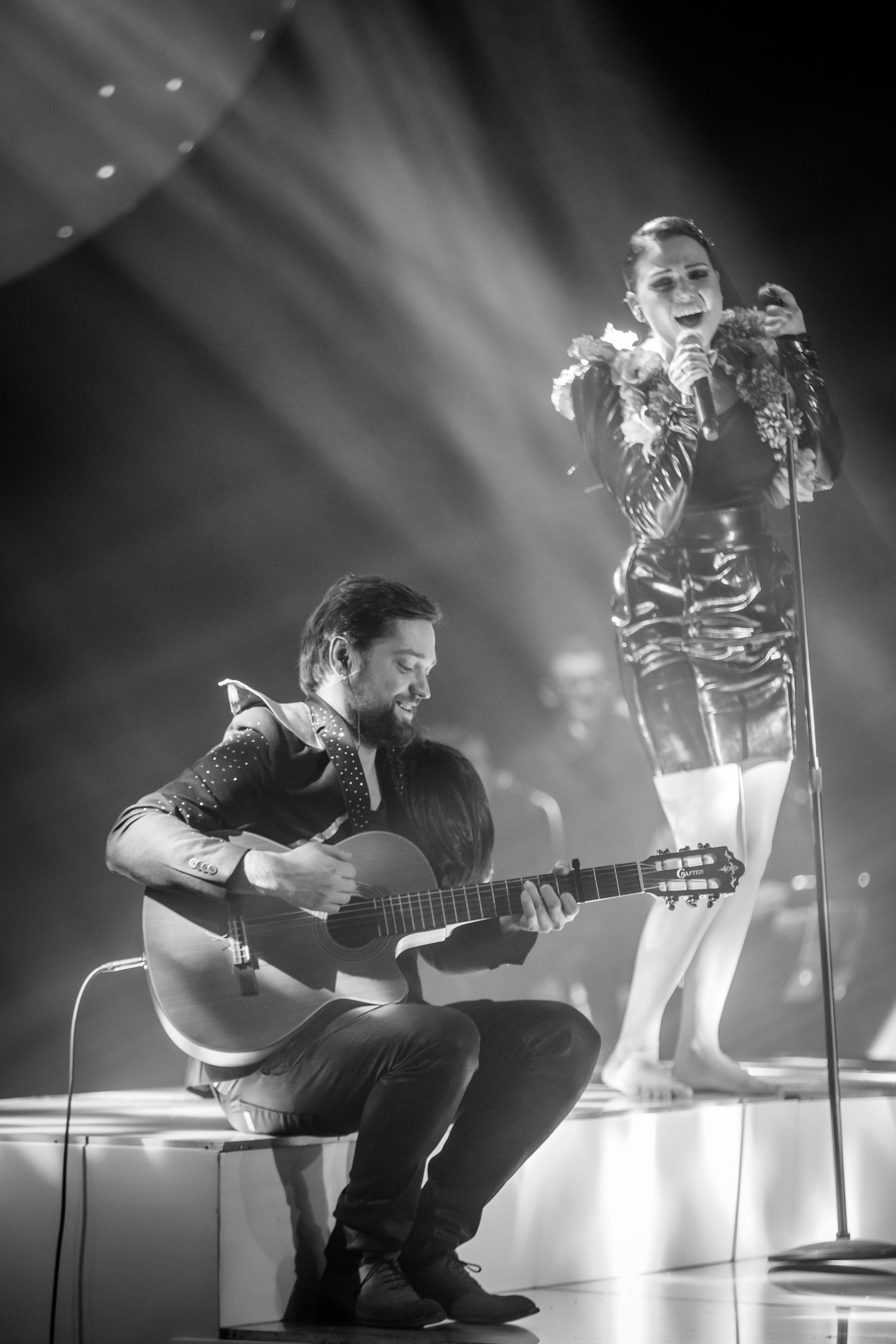 Photo from "Lees and Seas" album tour 2013 @ Teatro arena, VilniusLietuvių: "Lees and Seas" albumo turas 2013 @ Teatro arena, Vilnius